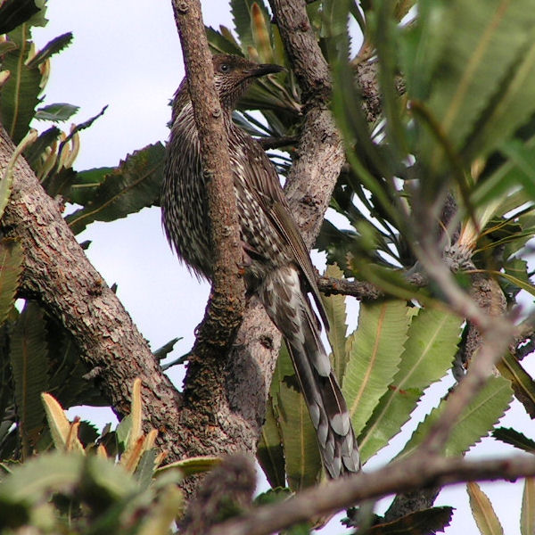 Western Wattlebird (Anthochaera lunulata), Perth, Australia